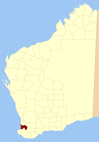 Location of the Wellington district in Western Australia, part of the Cadastral divisions of Western Australia